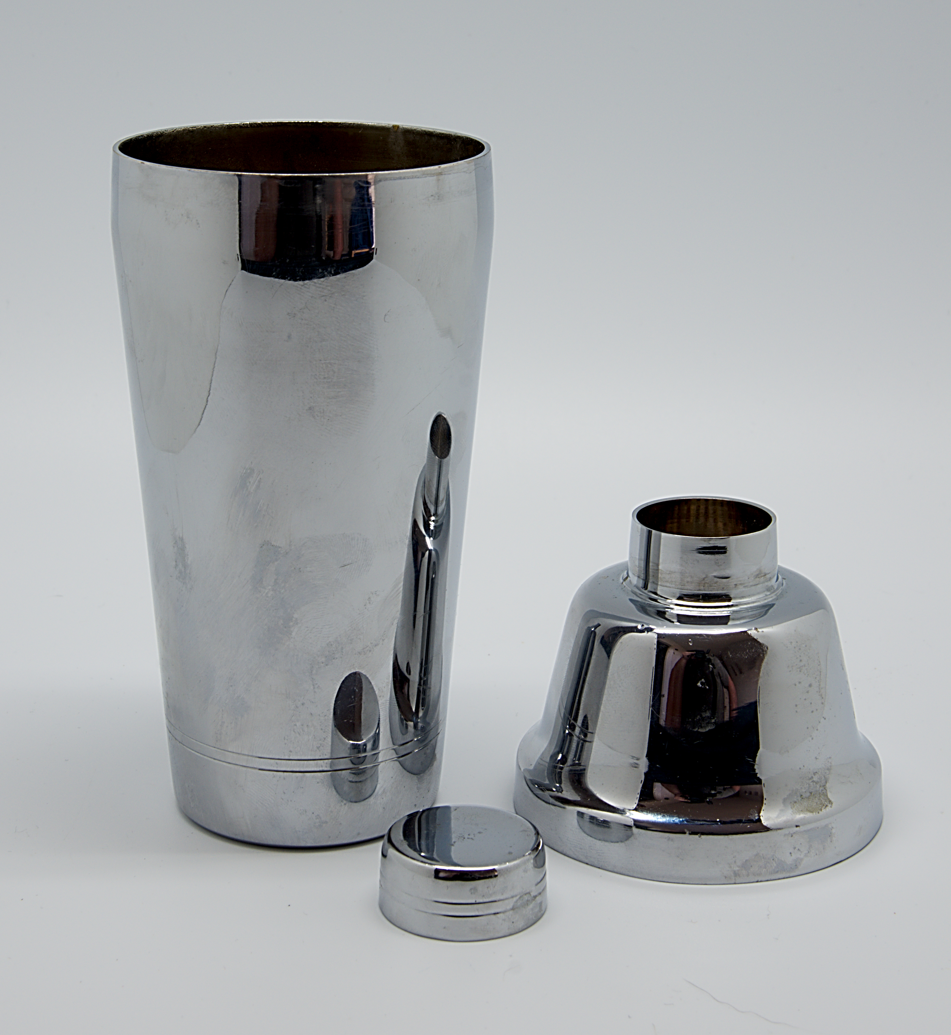 opened shaker